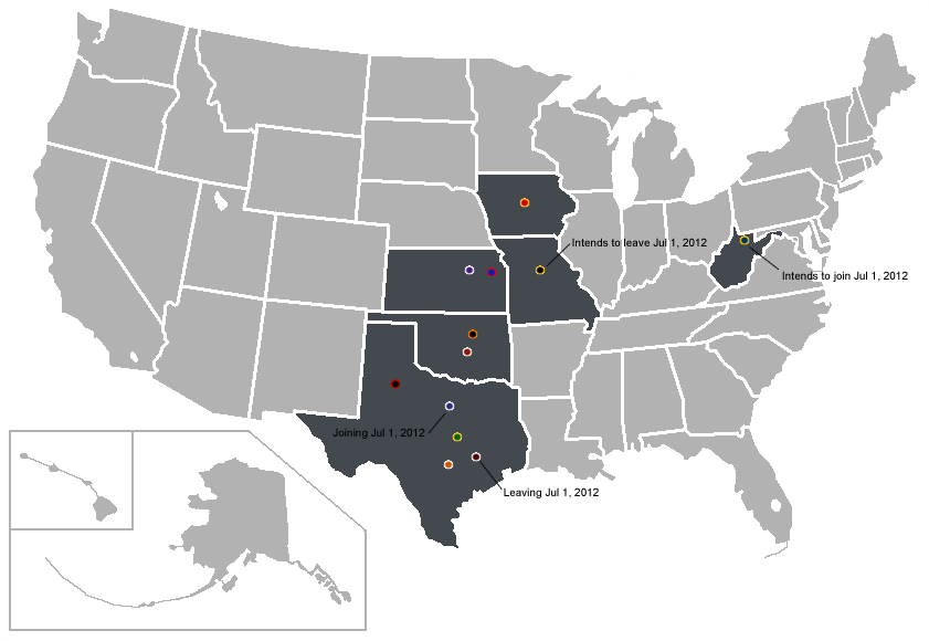 Map of current and future Big 12 schools as of Nov 6, 2011.